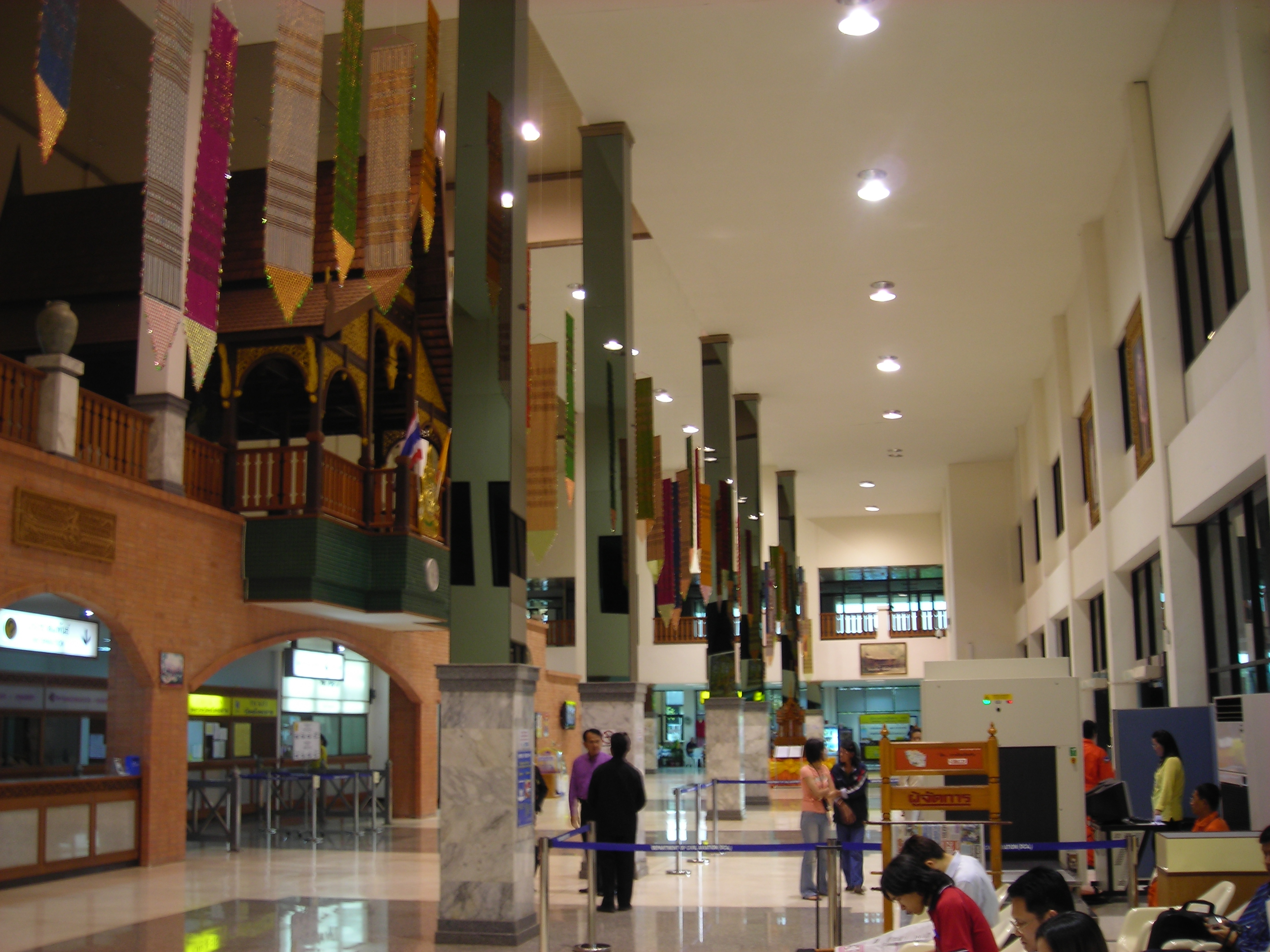 Sakon Nakhon Airport, Thailand - main building, interior.